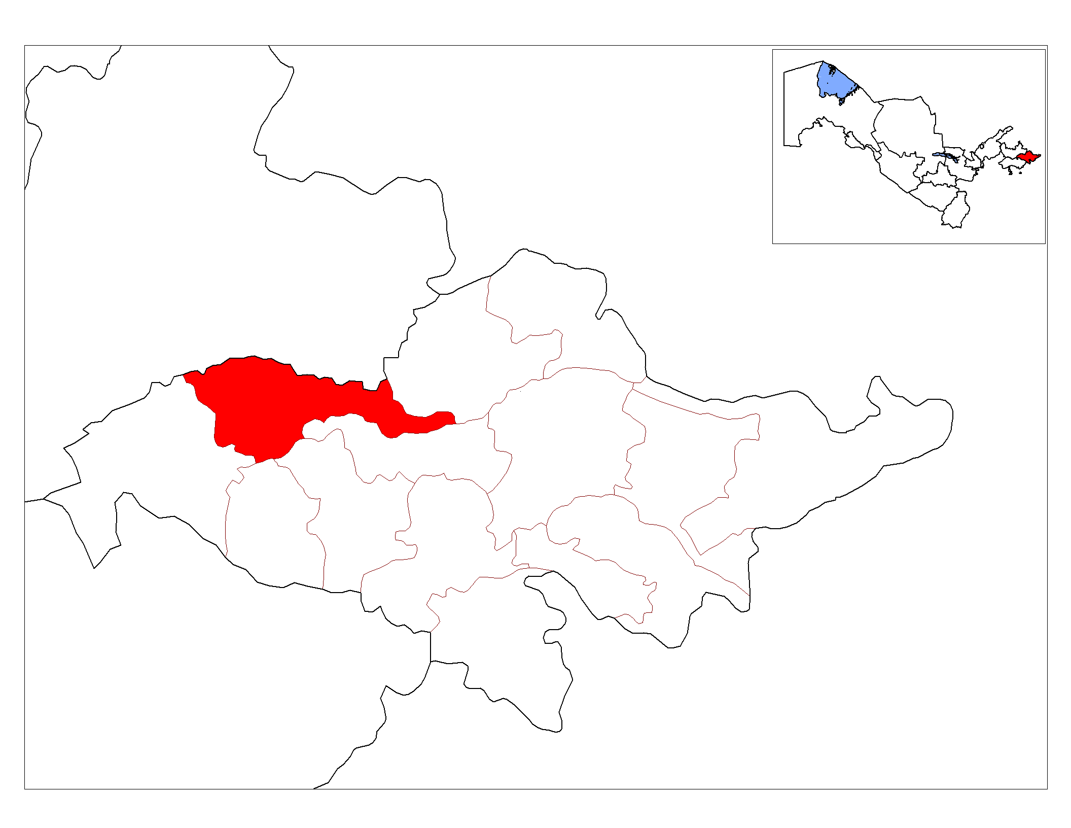 Location of Baliqchi District in Andijon Province